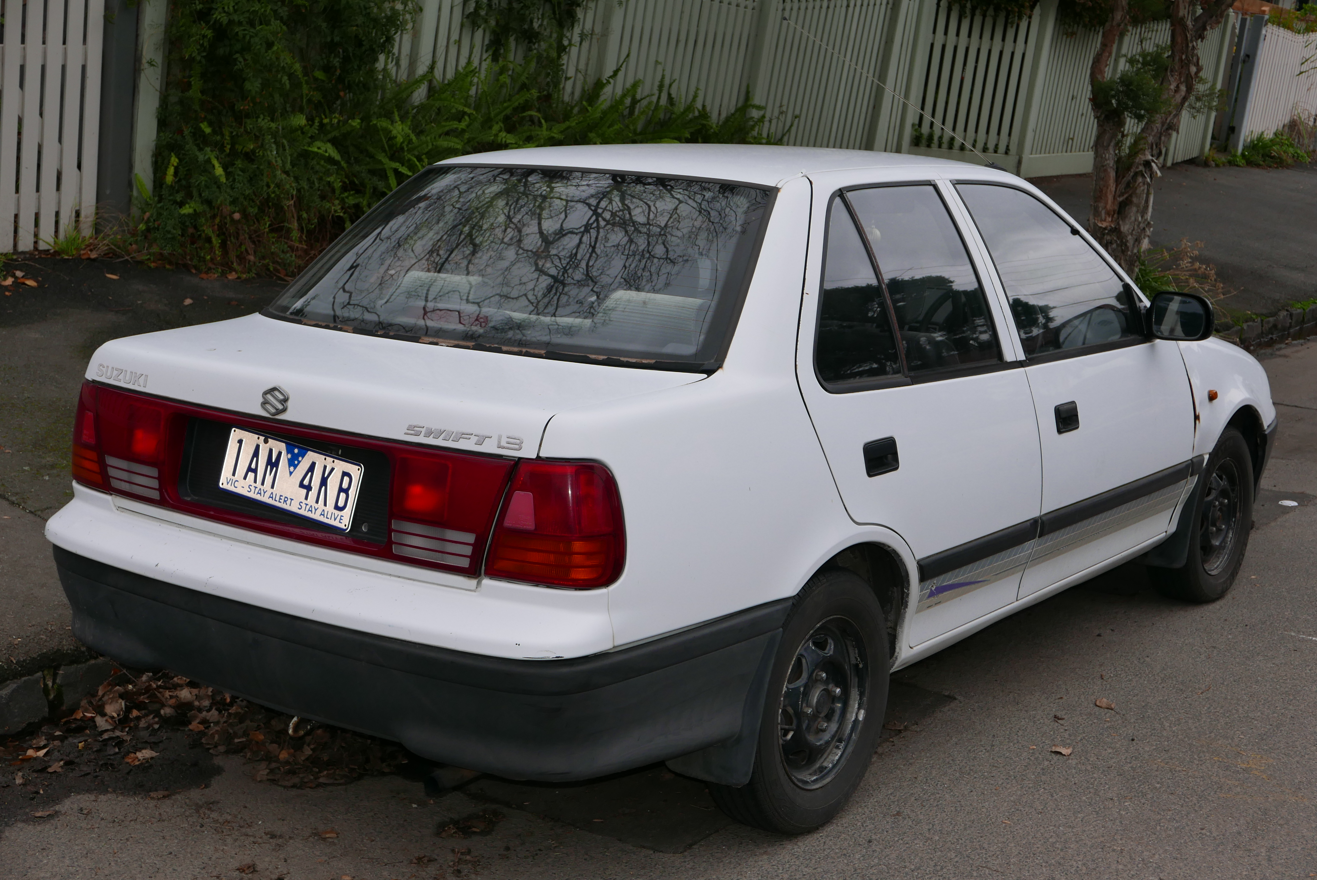 1992 Suzuki Swift GL sedan. Photographed in Fitzroy North, Victoria, Australia. Vehicle registration enquiry results Jurisdiction Victoria Registration 1AM4KB Chassis code JSAEAH35S00151596 Engine code G13BA293732 Compliance date 1992-09 Year of manufacture 1992